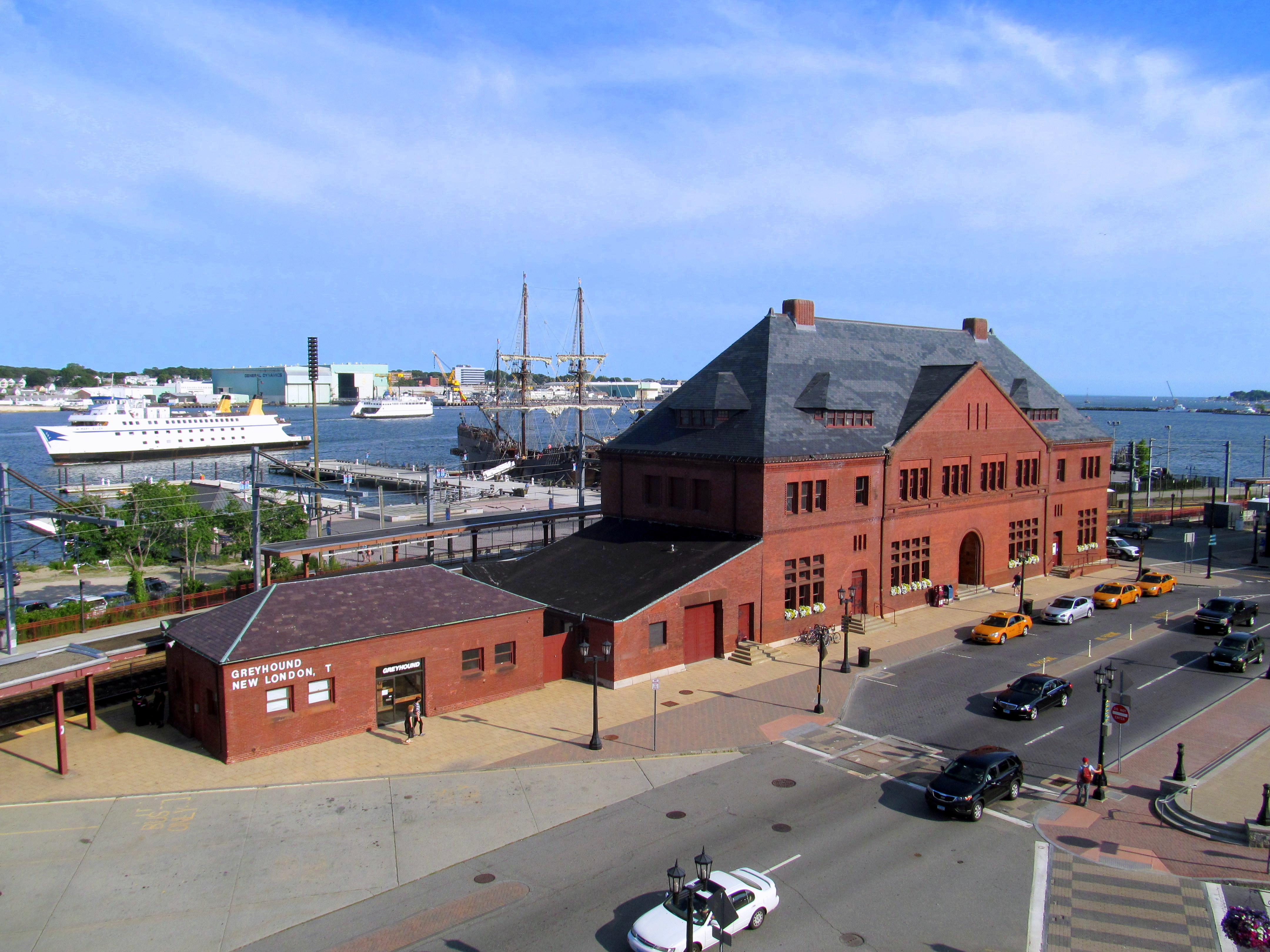 New London Union Station viewed from the adjacent parking garage in August 2015